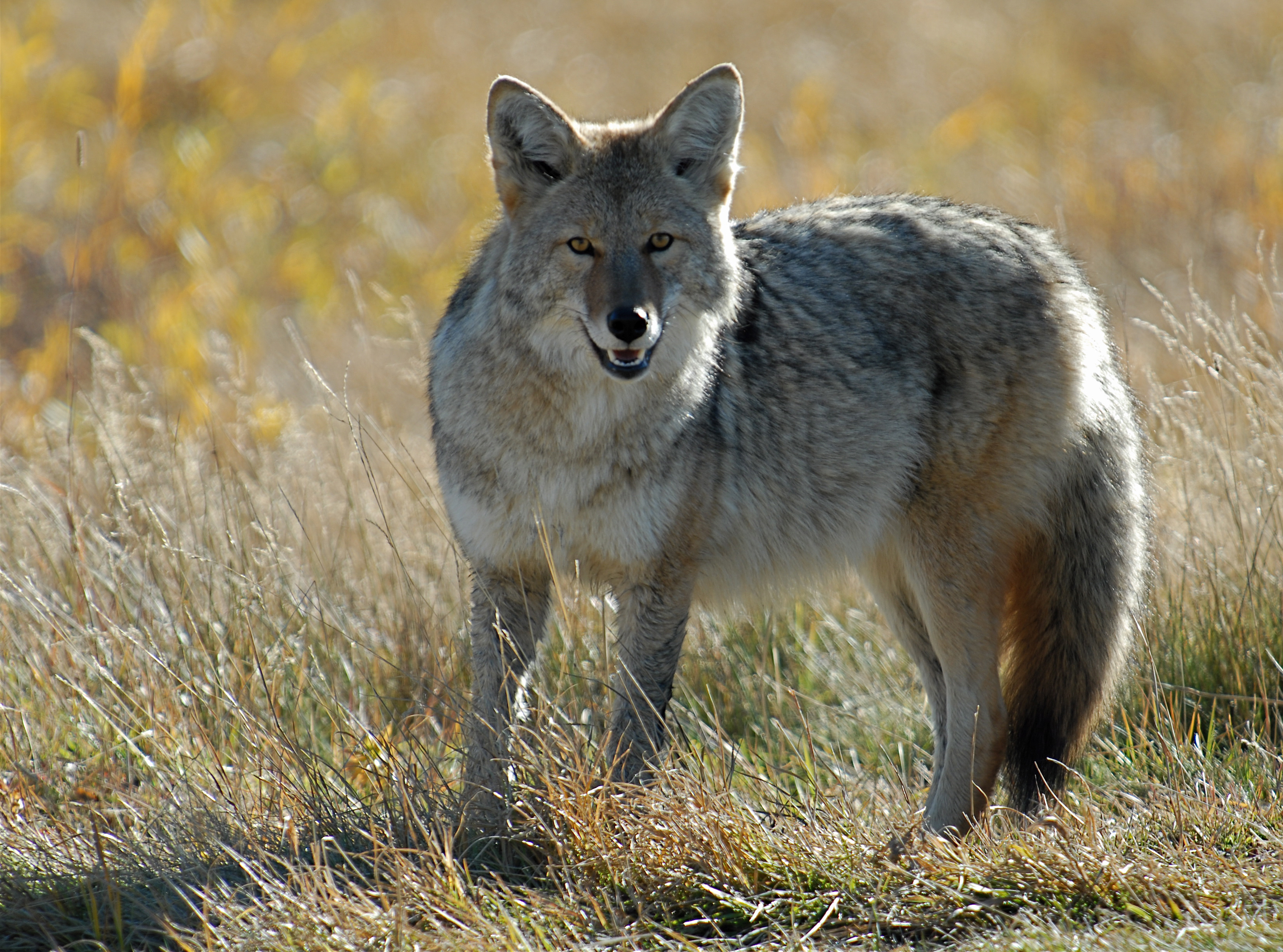 Coyote south of Ennis, MT, October 2007. Public domain.